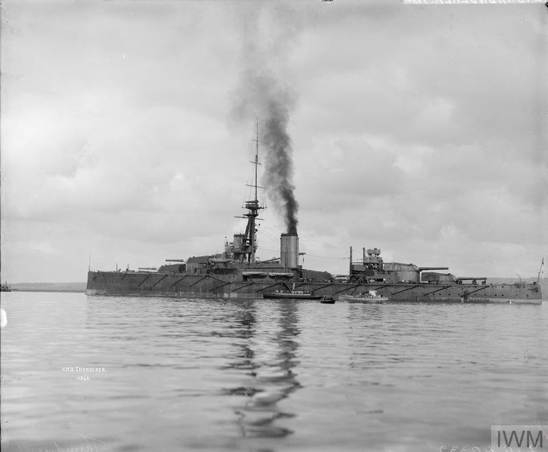 HMS Thunderer at anchor, before 1915